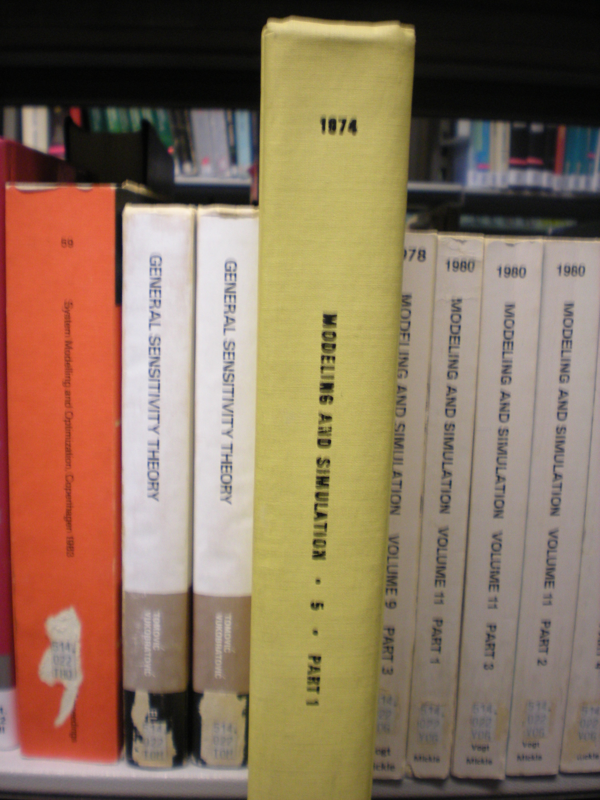 Book spines